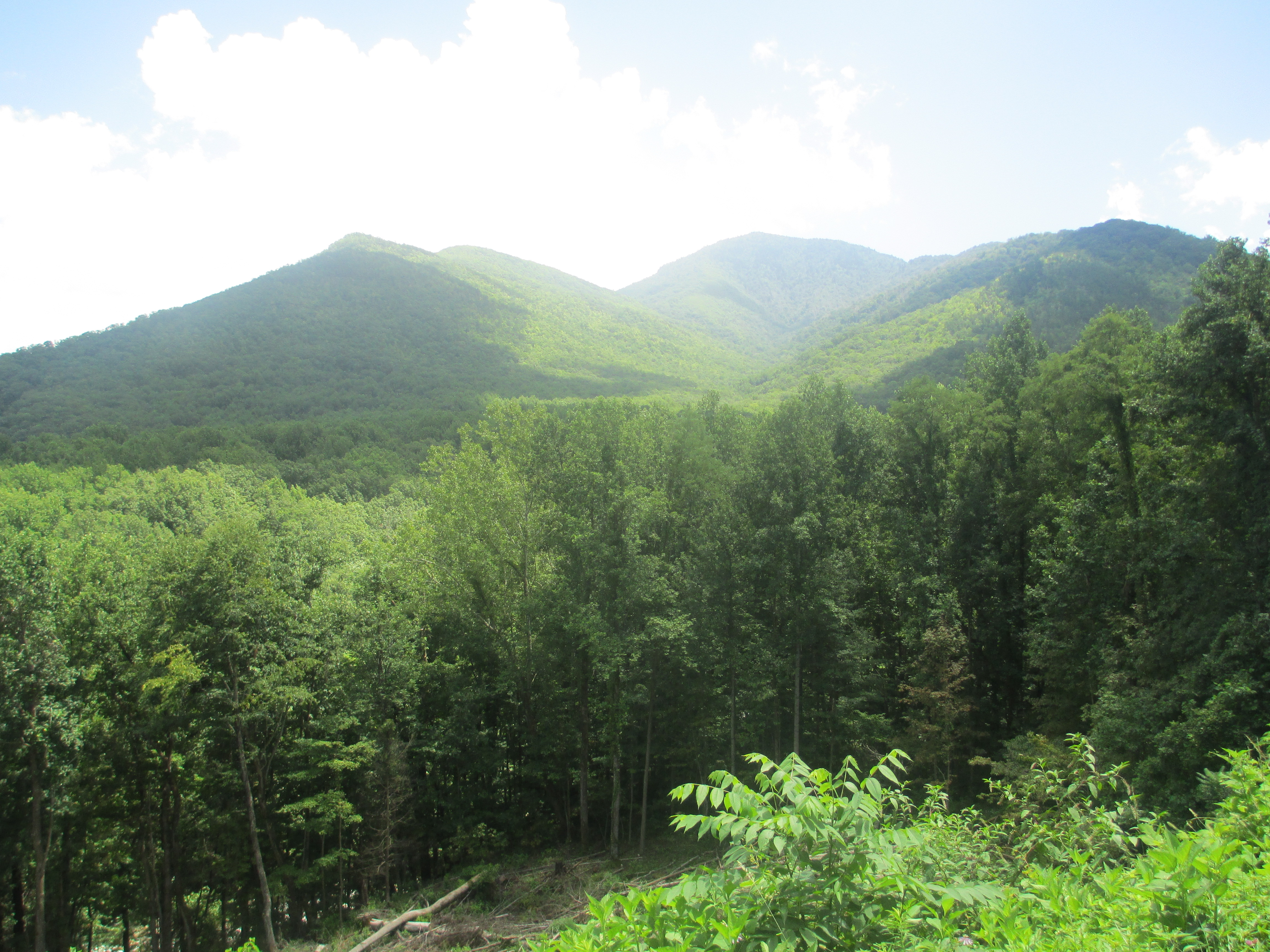 I took photo of Campbell Overlook in Great Smoky Mountains National Park, with Canon camera.